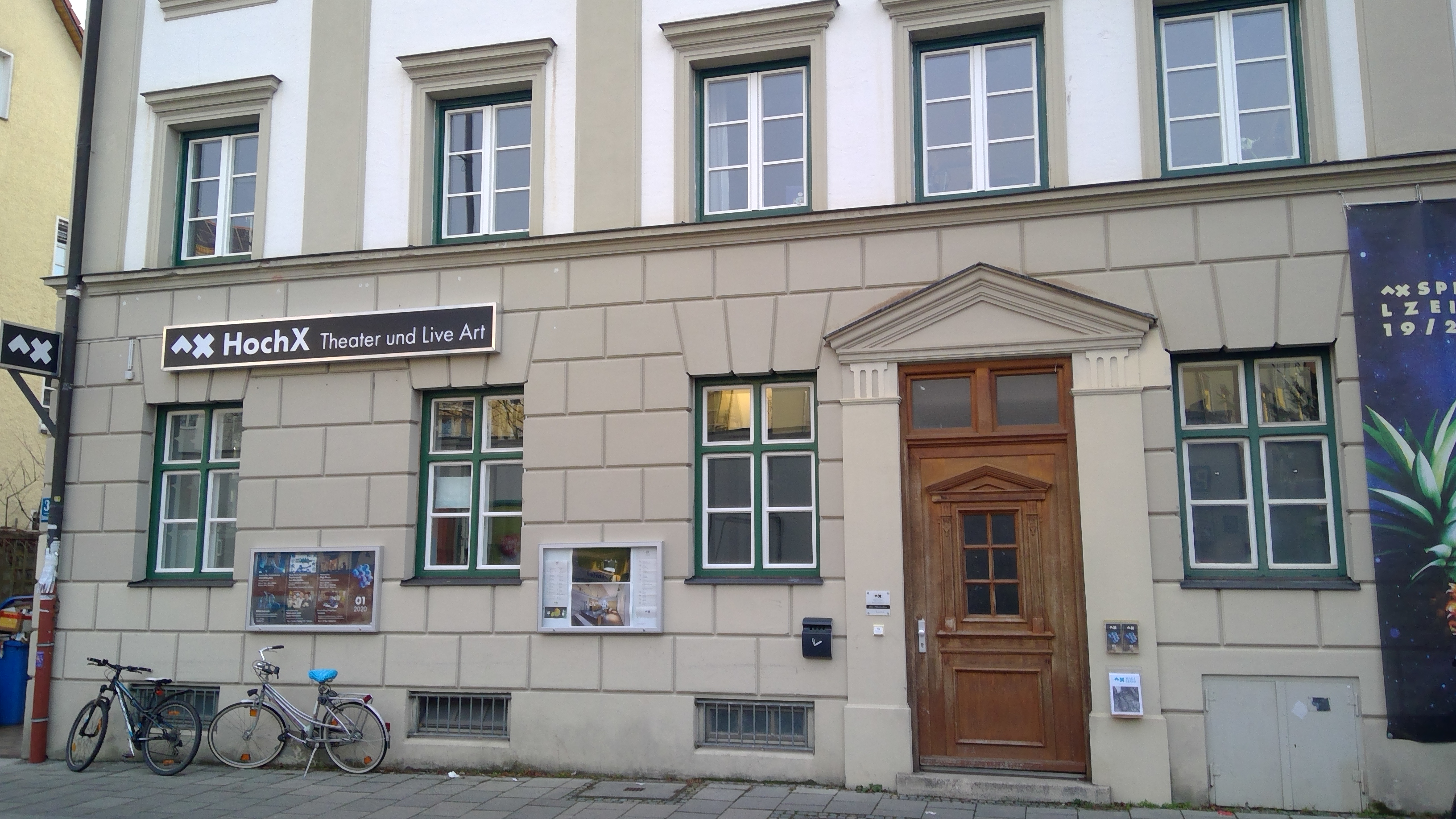 Hoch X theatre in Munich, district Au-Haidhausen